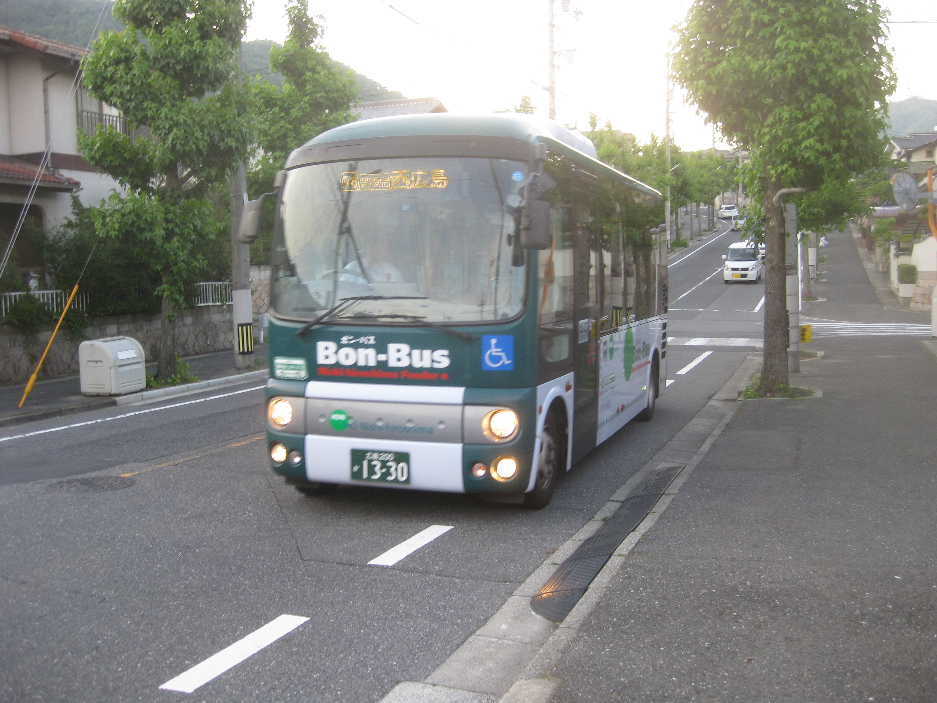 The bus car ,HINO Poncho of HD Nishihiroshima